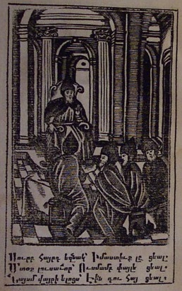 Eznik's book published in Smyrna in 1762, shows Eznik instructing his pupils (British Library 17026.b.14)